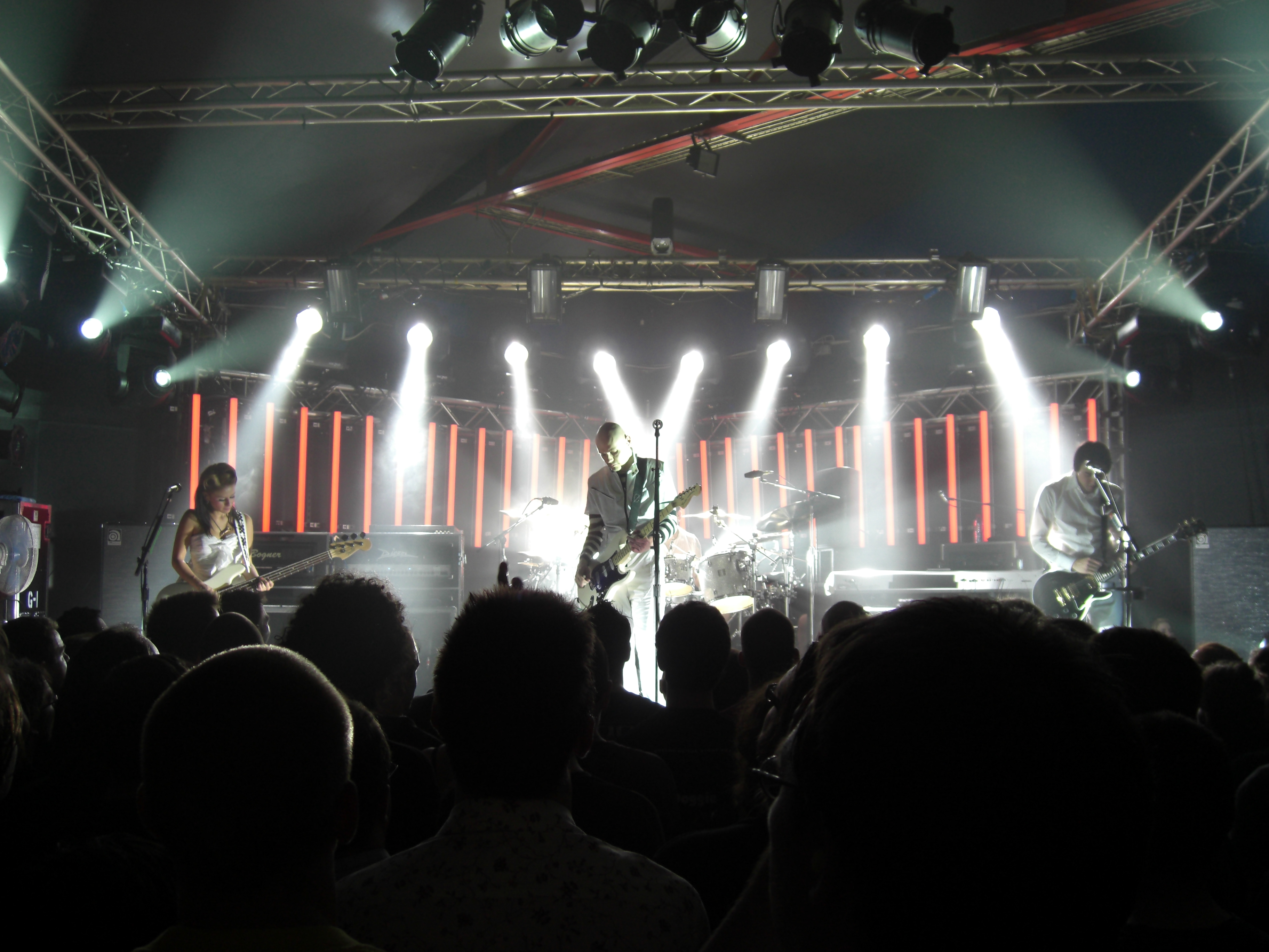 The Smashing Pumpkins on May 24th 2007 at "den Atelier", Luxembourg. Ginger Reyes, Billy Corgan, Jimmy Chamberlin (Back) and Jeff Schroeder. (Lisa Harriton wasn't on Stage at that moment) Billy Corgan is wearing a Nice Collective custom Flight suit, designed for stage appearance.